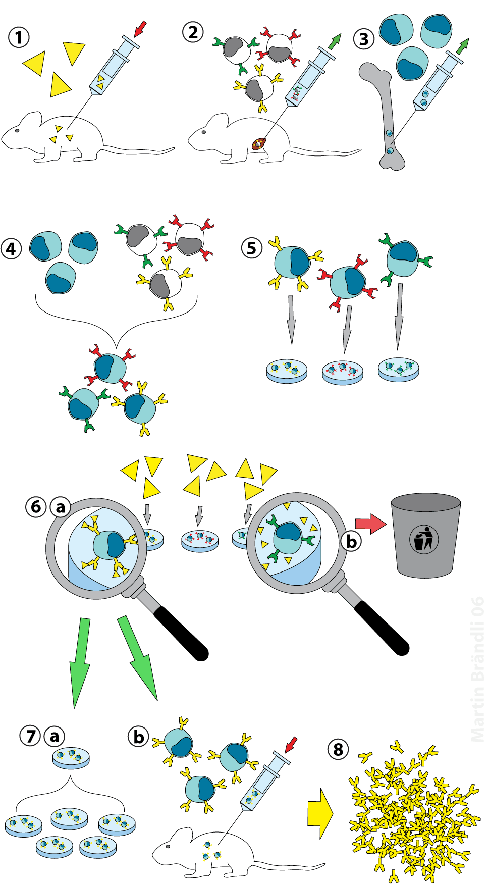 Diagram showing the production of monoclonal antibodies via hybridoma technology